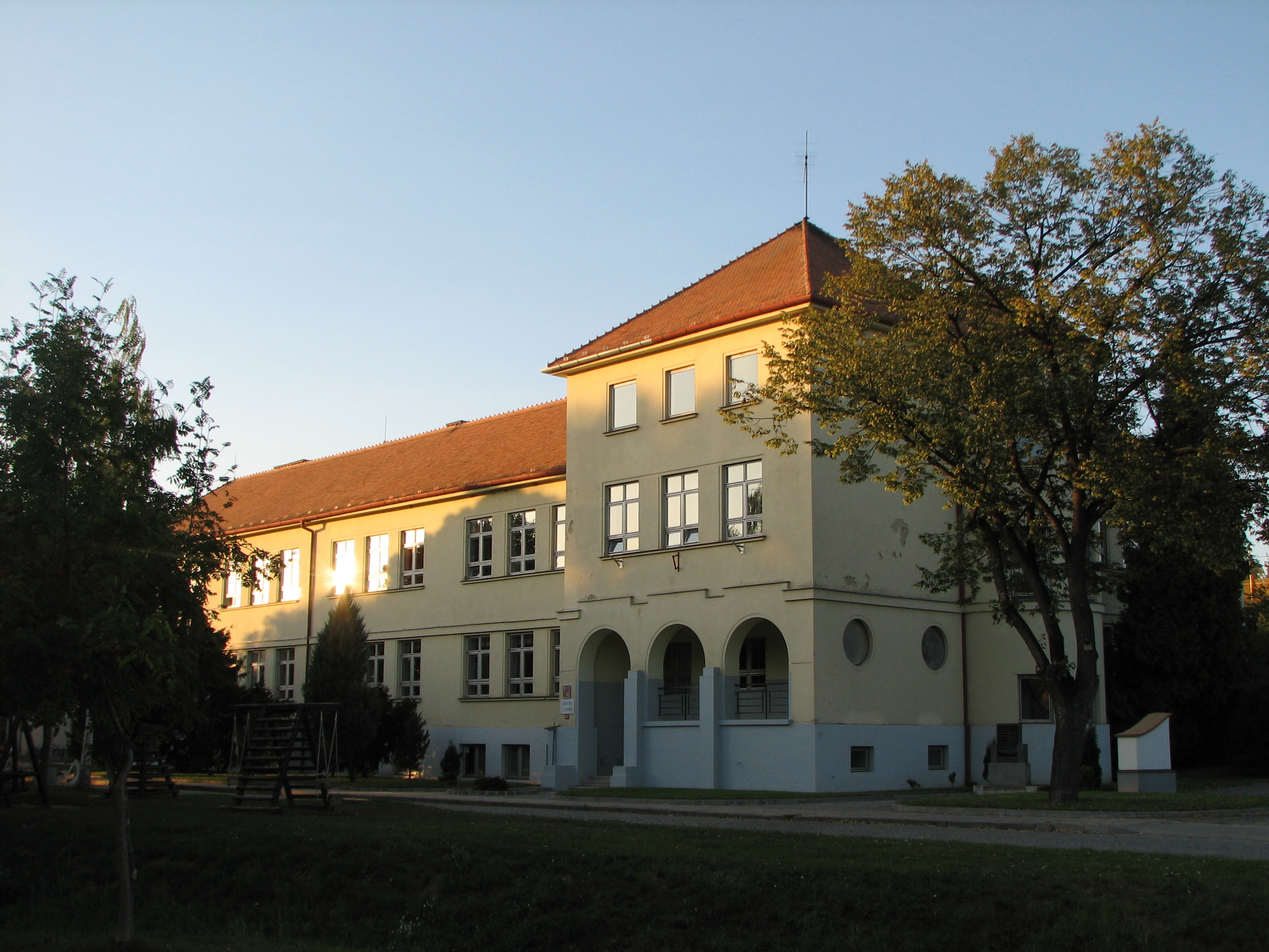 School in Šardice, Hodonín District, Czech Republic